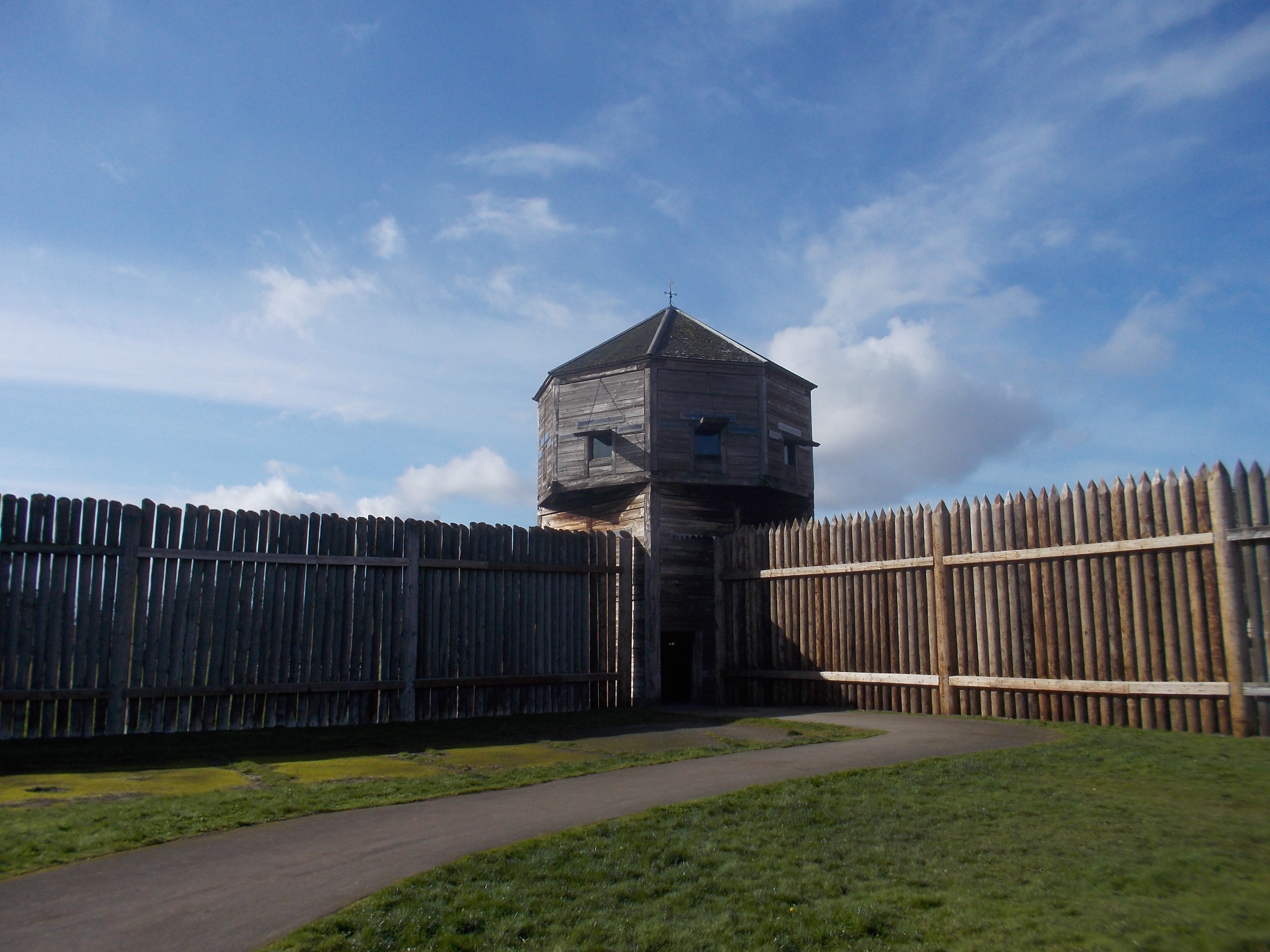 Fort Vancouver, Vancouver, WA